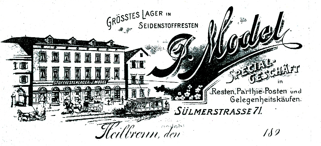 Heilbronn Model-Haus 1890.jpg